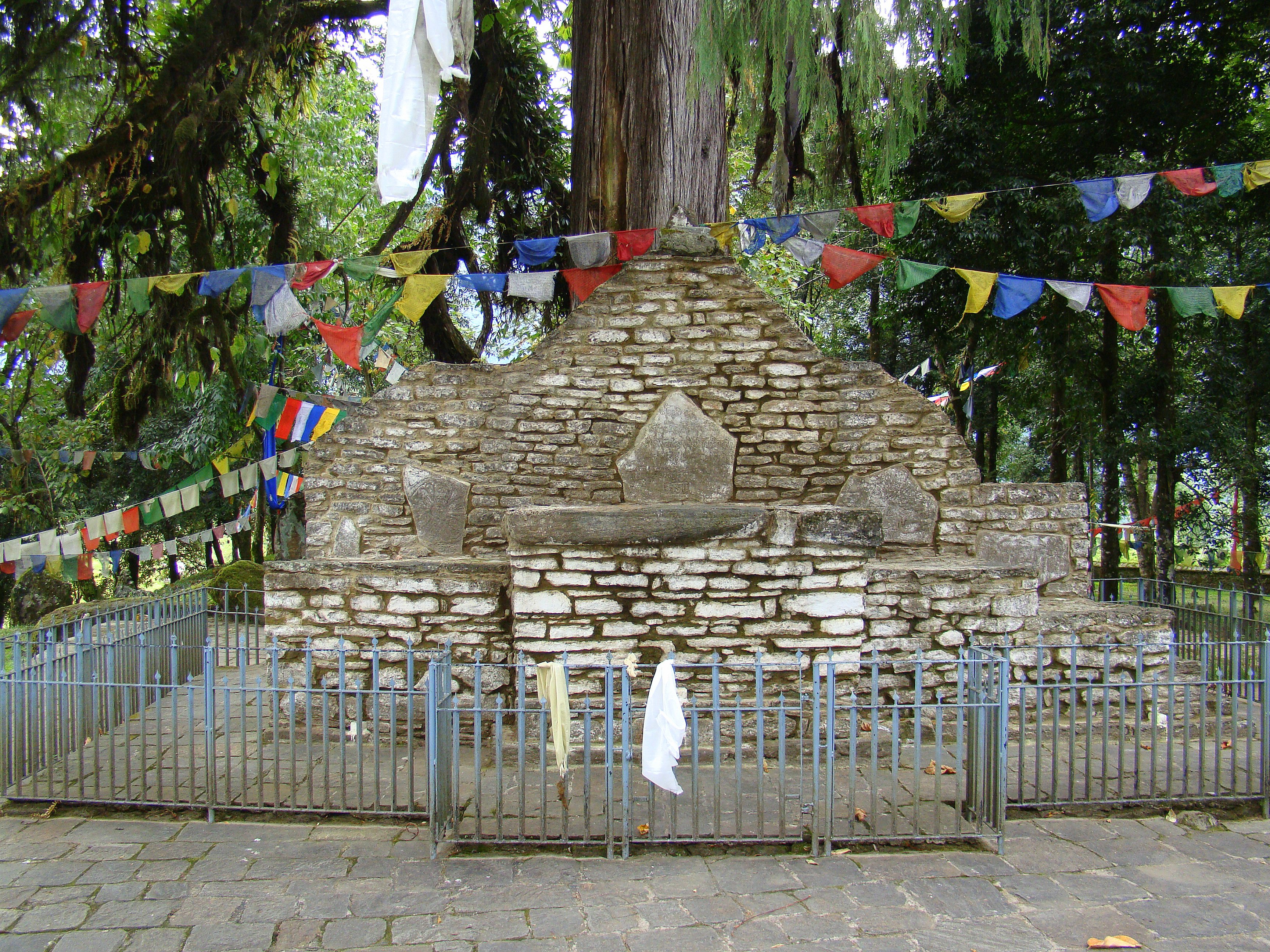 Coronation Throne at Norbugang Parc in Yuksom, where the first Chogyal of Sikkim (Phuntsok Namgyal) was crowned in 1641.